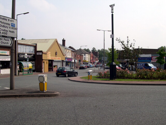 Blackheath, West Midlands. Marketplace 2004, This photograph is the work of and copyright property of Anthony Cutler